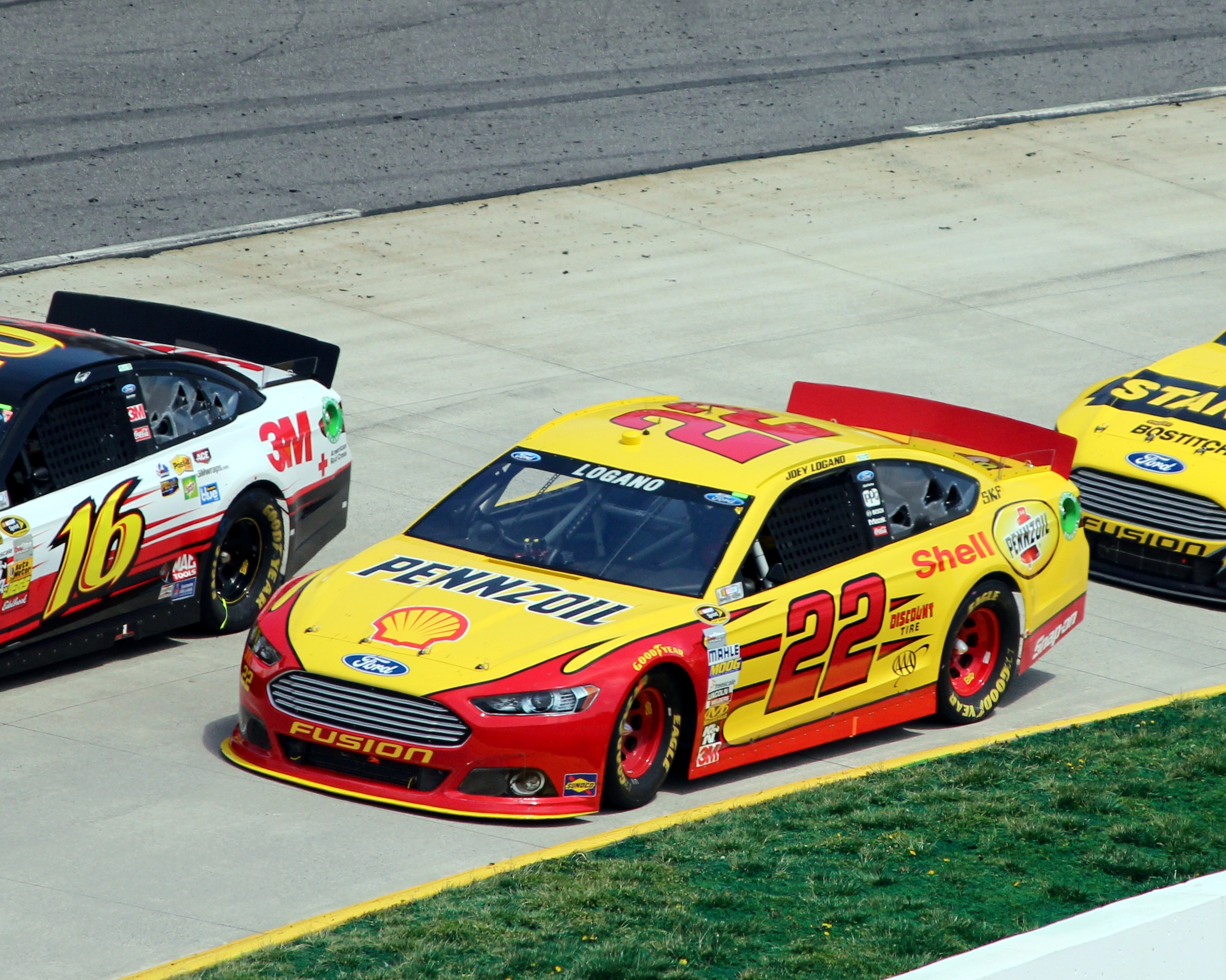 Joey Logano during the 2013 STP Gas Booster 500 at Martinsville Speedway. (April 7, 2013)